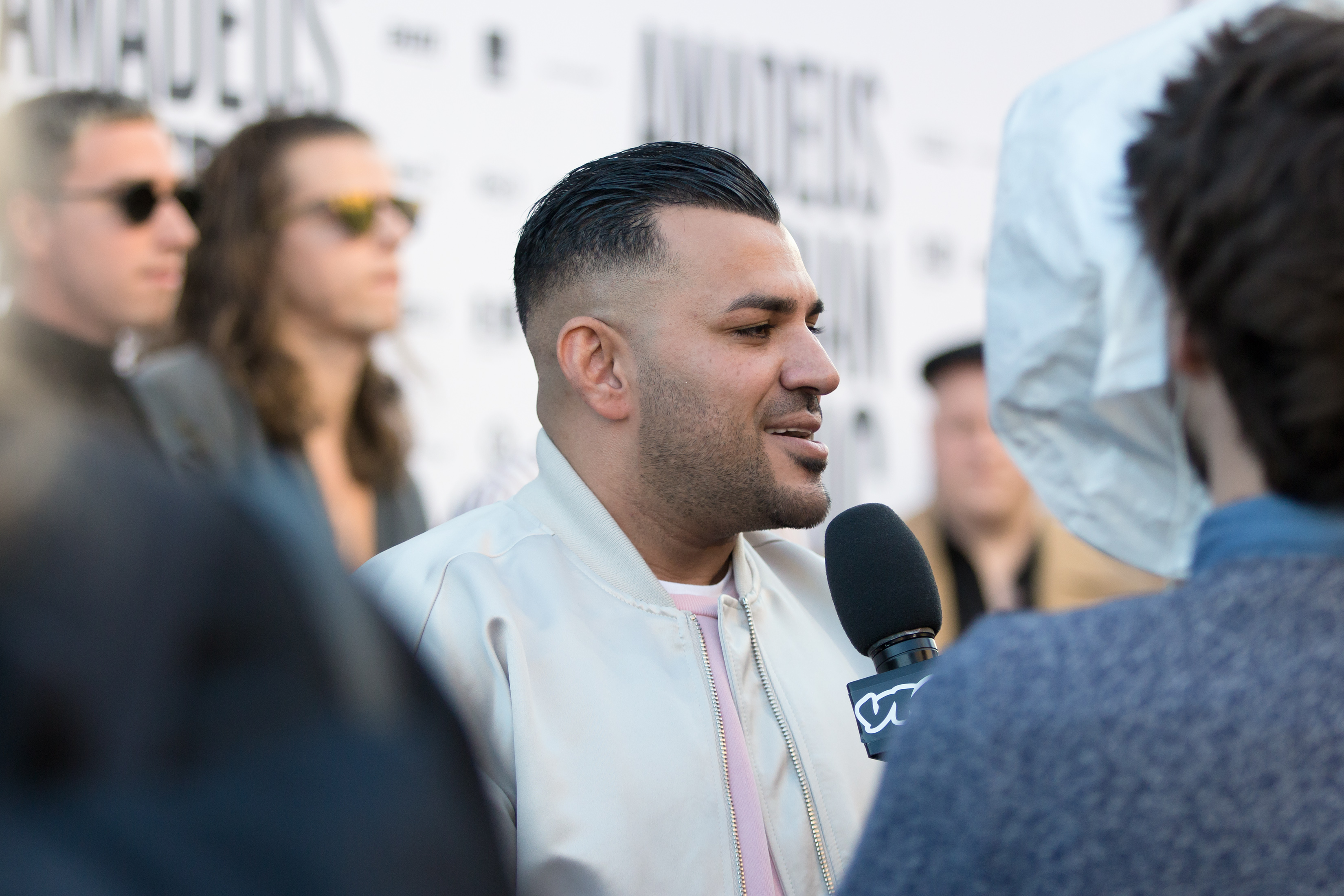 Nazar at the Amadeus Austrian Music Award 2017 at Volkstheater in Vienna.